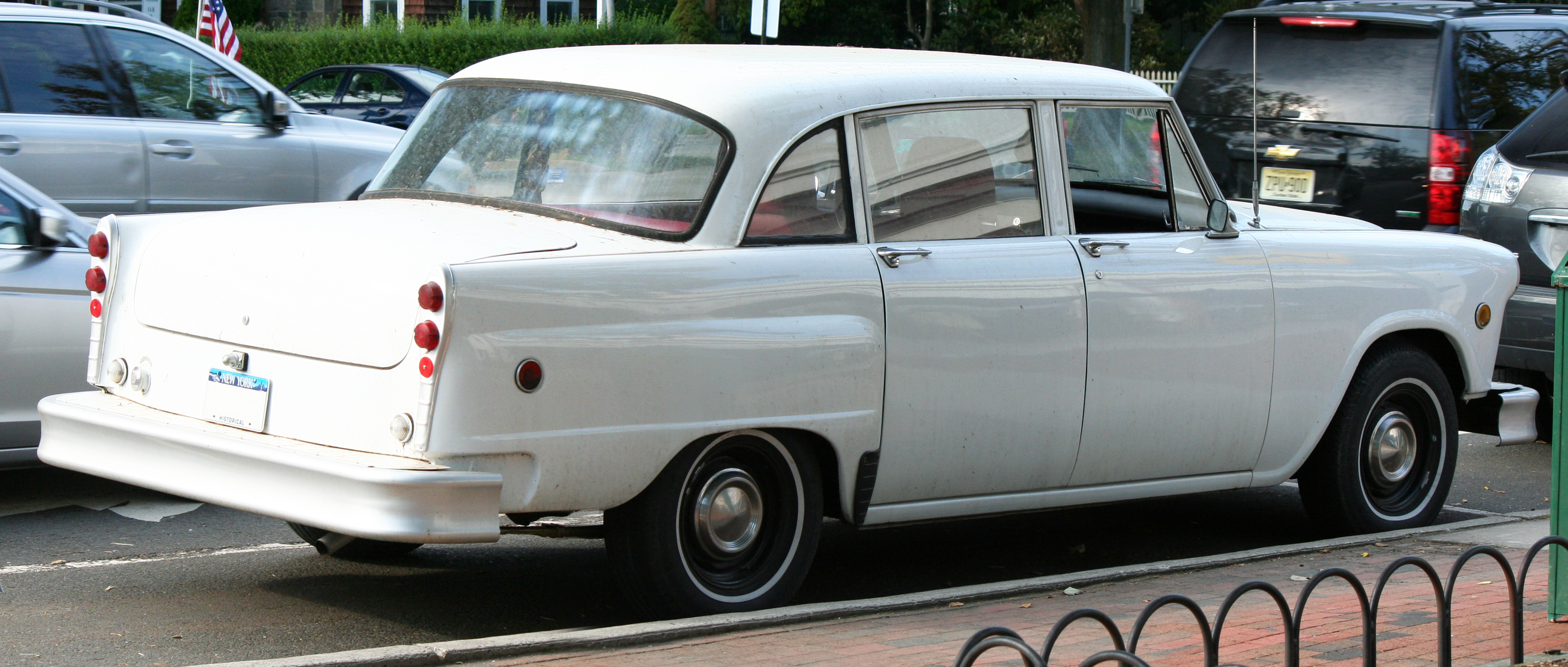 1975 Checker Marathon A12, one of about 450 non-taxi Checkers built in 1975. This one has the original Chevrolet 350 V8 with 145hp.